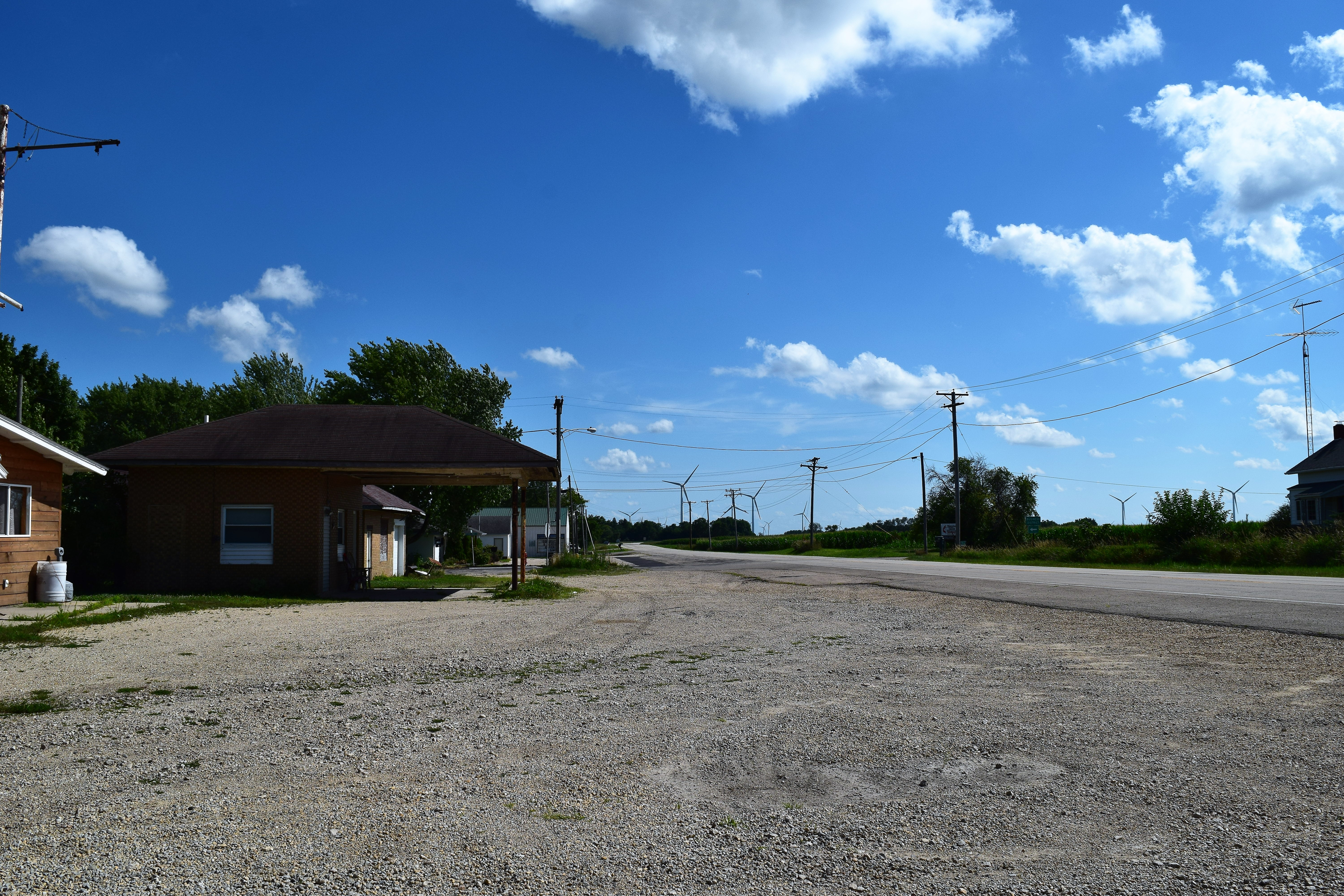 Looking south at Compton, Illinois on Illinois Route 251.